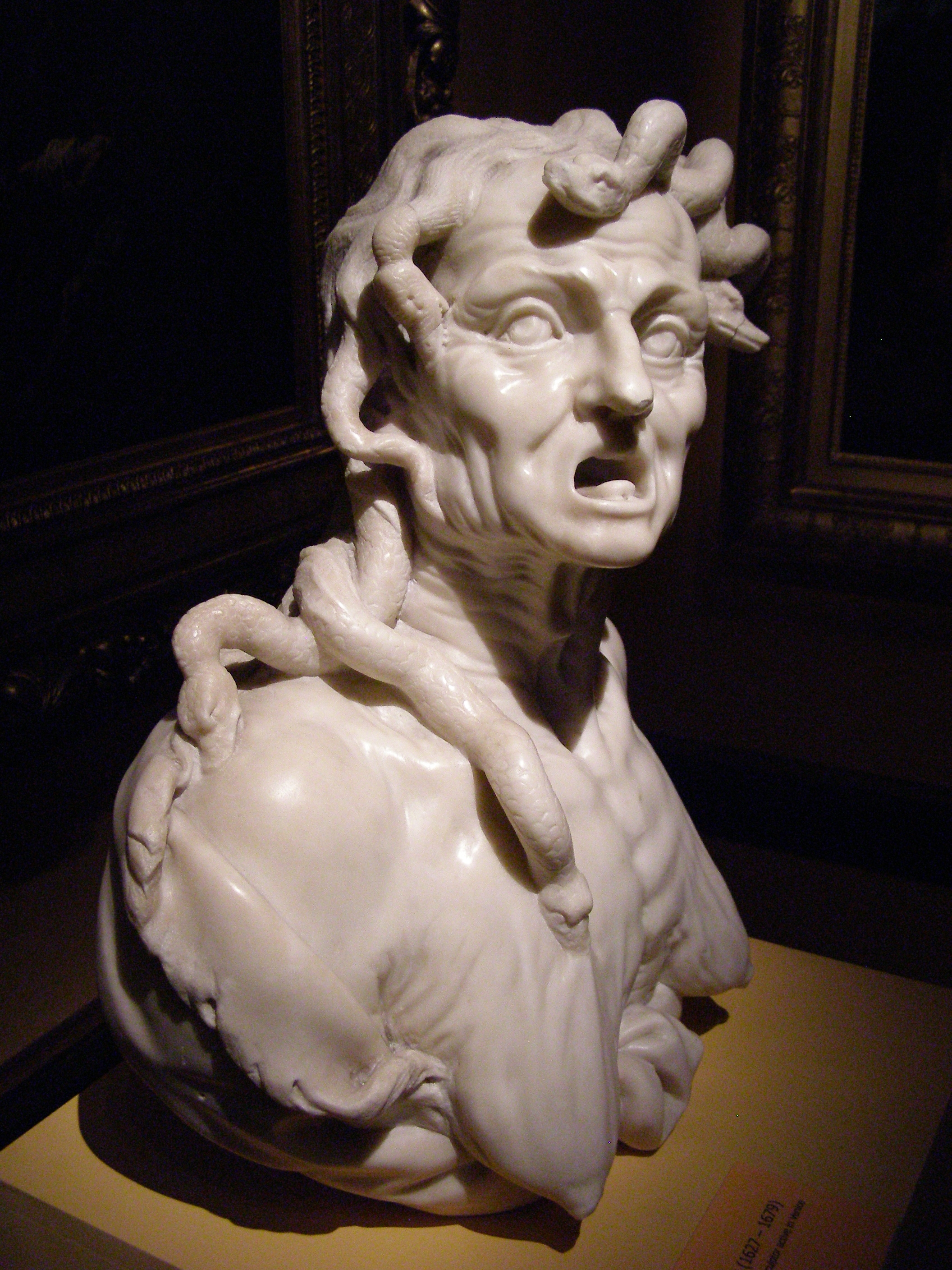 Giusto Le Court - Envy (European Treasures of the National Museum from the Princes Czartoryski Museum in Kraków exhibition at the Royal Castle in Niepołomice)